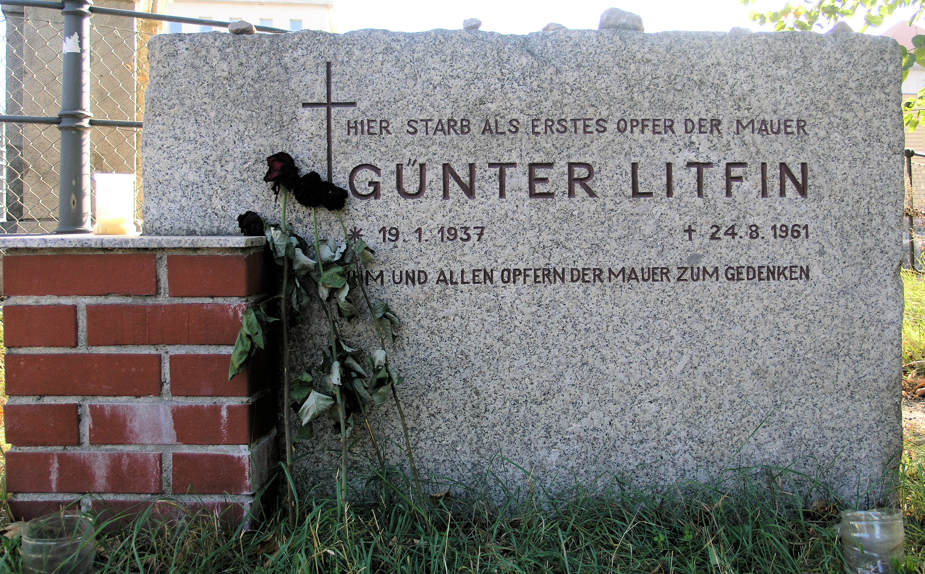 Memorial plaque, Günter Litfin, Sandkrugbrücke , Berlin-Mitte, Germany